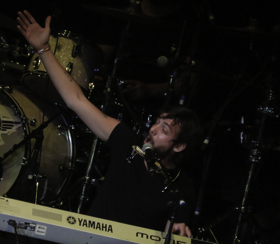 Chris Janson performs at 98.5 KYGO's CHRIStmas Jam at the 1STBANK Center in Broomfield, Colorado on December 14, 2017.